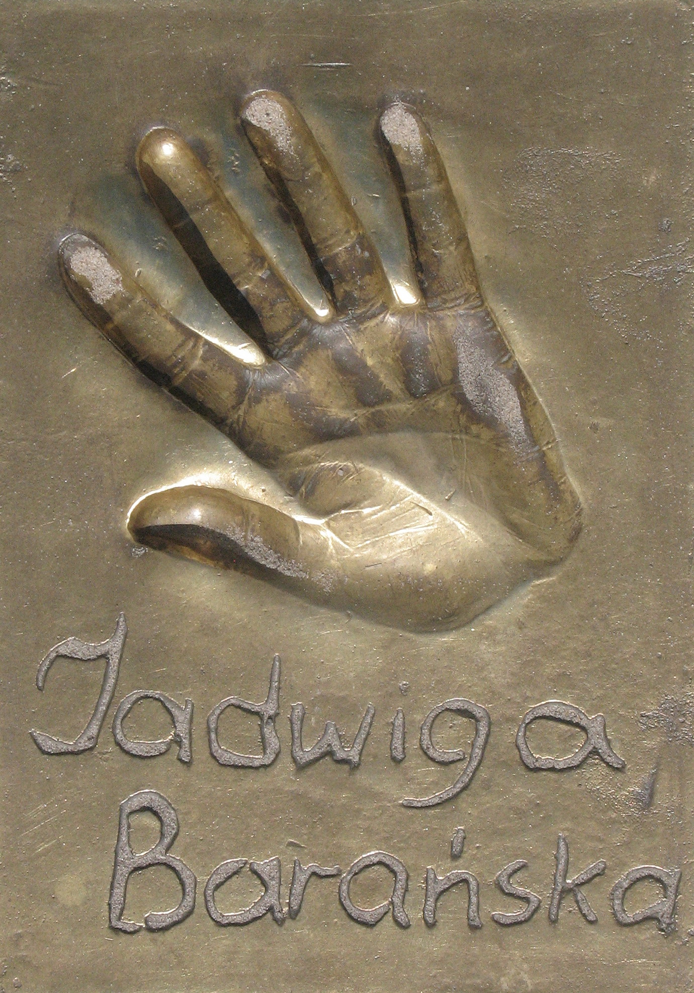 Jadwiga Barańska - handprint and signature in Międzyzdroje